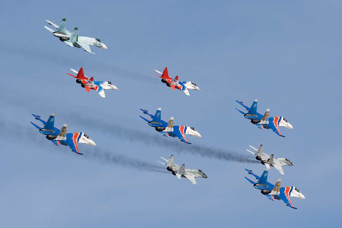 Russian Knights and Swifts formation